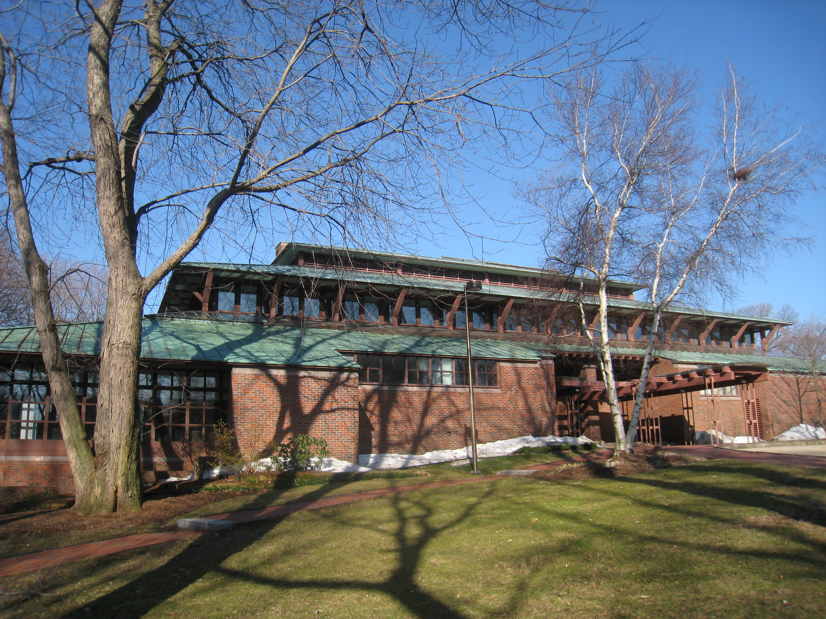 American Academy of Arts and Sciences building, Cambridge, Massachusetts, USA. Exterior view.